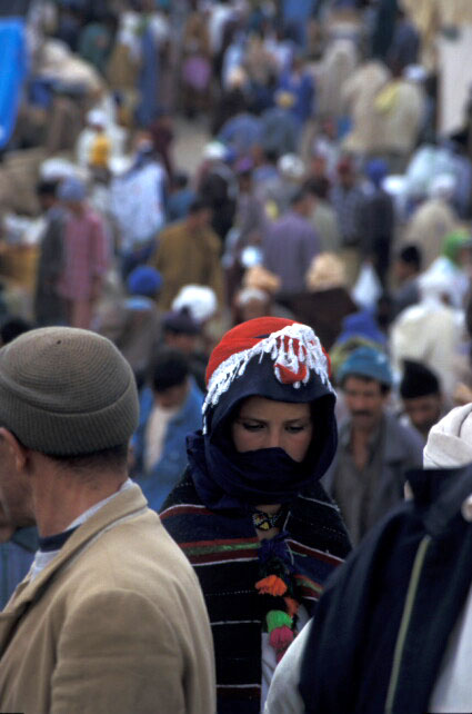 Chleuh weddings, Berber woman.